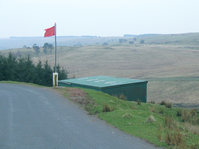 Half way through No Man's Land As the B4519 enters and leaves either side of the Sennybridge artillery range, red flags are shown to tell you it's not safe to stray from the road. Half way through there is another flag to remind you.